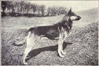 German Shepherd Dog from 1915